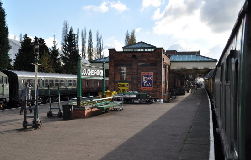 Loughborough Central Railway Station, near to Loughborough, Leicestershire, Great Britain. This is a recreation of a mid 1960s photo taken before closure. Link (second down). Not much has changed, the lamp position, tree growth and the clocks are back. The station sign is a lot nicer that the 1960s version to. The canopy end looks very good after recent restoration. SK5419 : Canopy Restoration